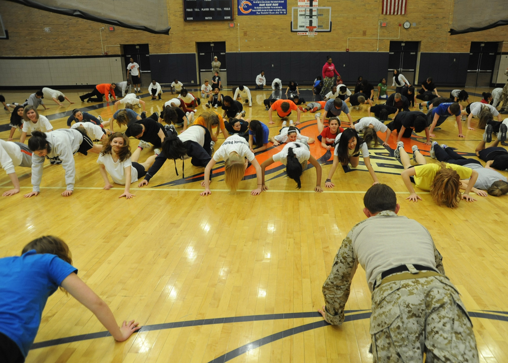 MINNEAPOLIS, Minnesota (Jan. 27, 2011) U.S. Navy SEALs lead exercises at Cooper High School. The SEALs also held a "Mental Toughness" presentation to promote Naval special warfare awareness. (U.S. Navy photo By Mass Communication Specialist 2nd Class William S. Parker/Released)